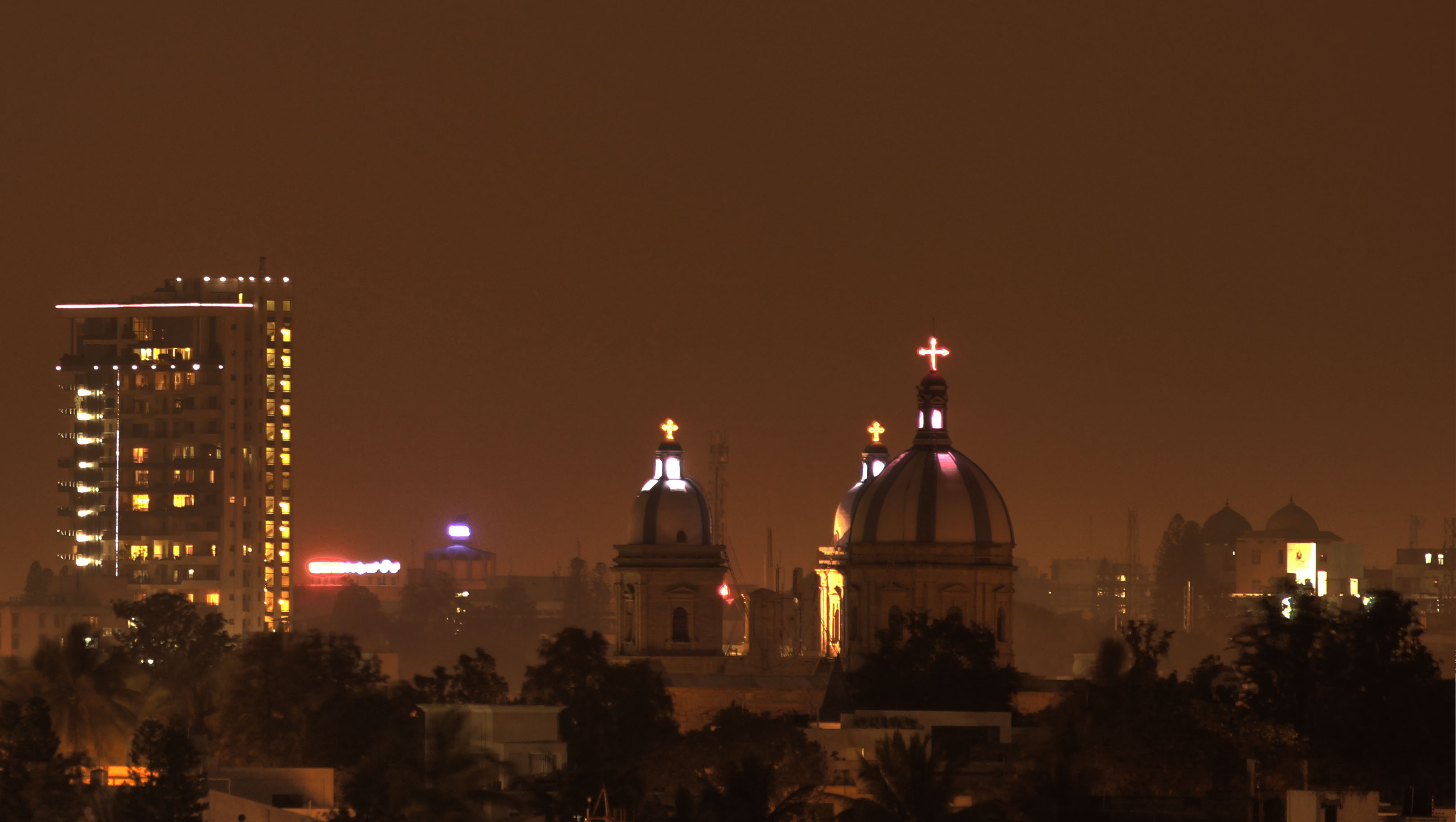 St Francis Xavier Cathedral, Bangalore at night from Cooks town by Saad Faruque